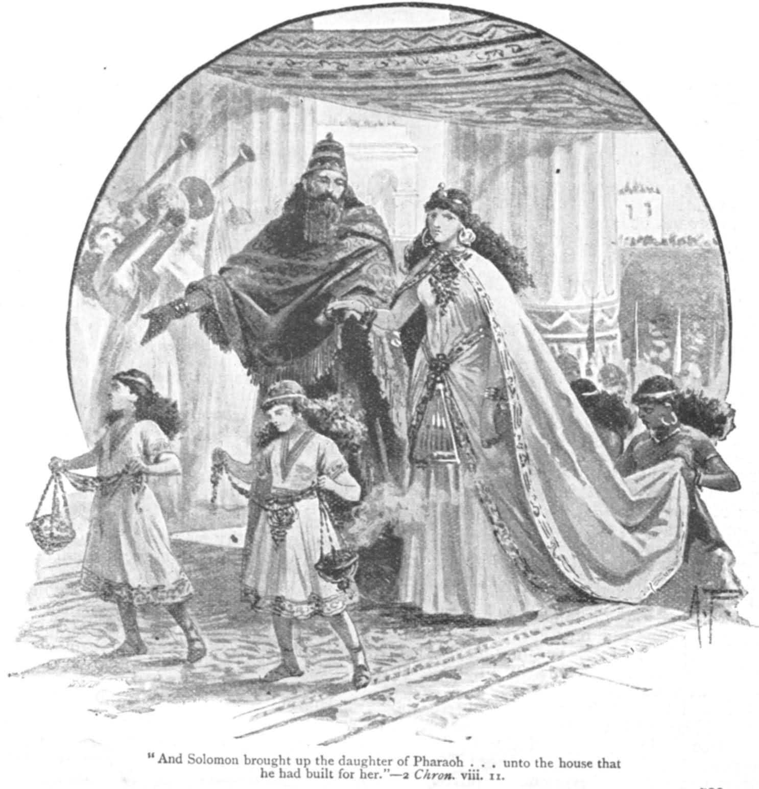 Solomon and Pharoah's daughter